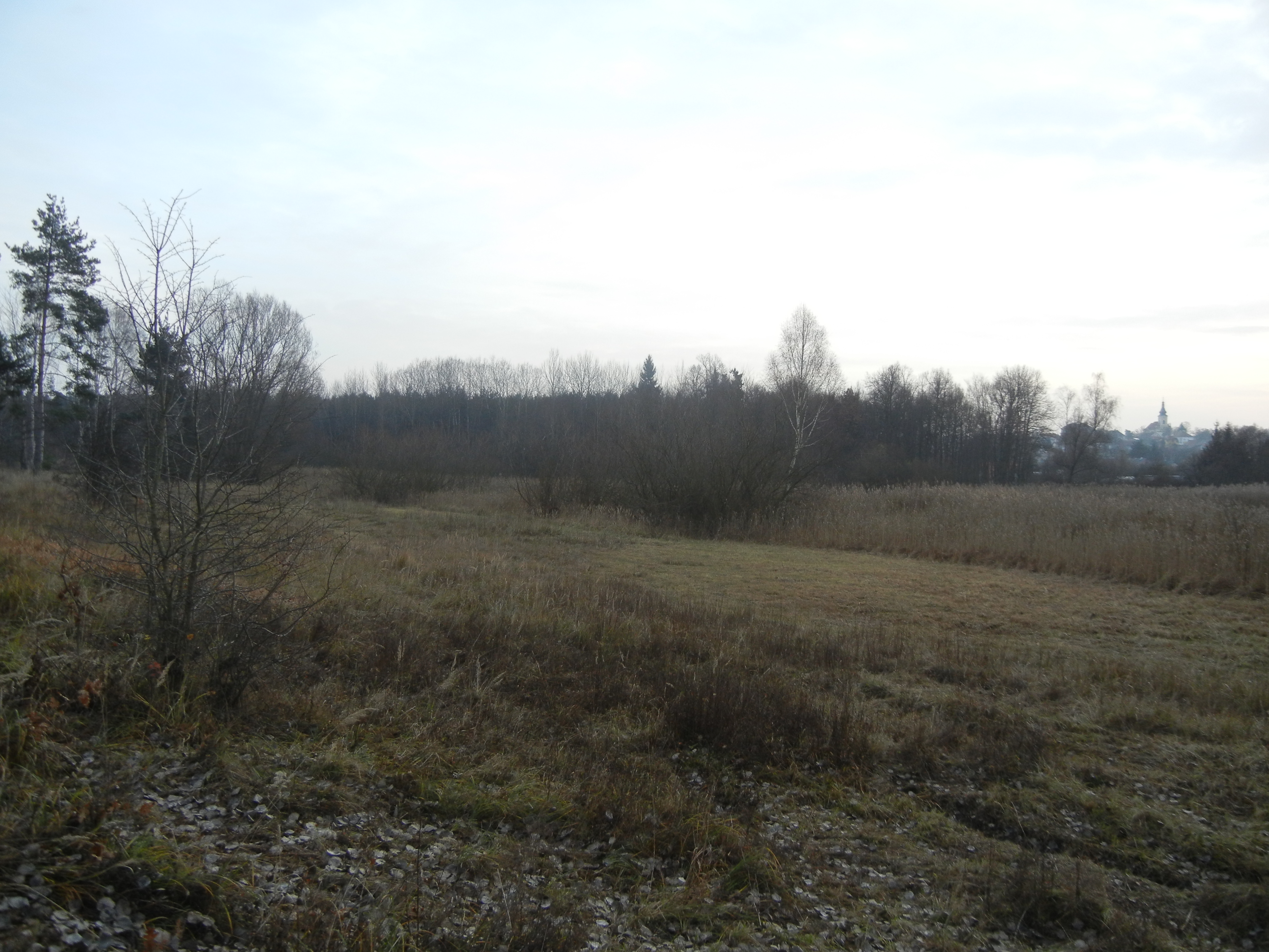 Moorland. Natural monument Na Plachtě 3 in Hradec Králové District, Czech Republic